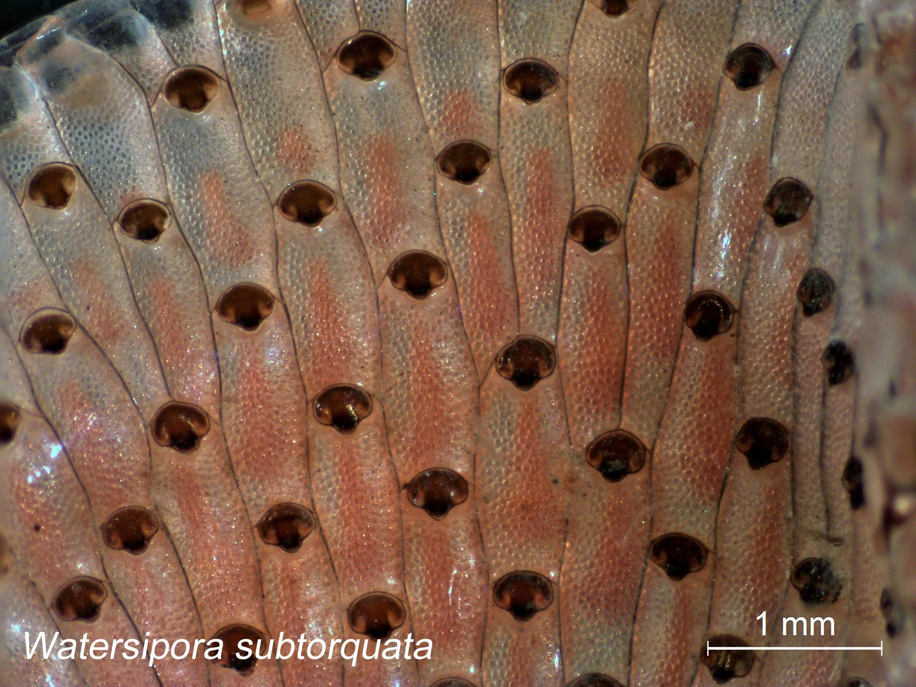 Eyes Under Puget Sound This species image was collected from Puget Sound sediments and photographed by the Washington State Department of Ecology’s Marine Sediment Monitoring Team. For more information about this team’s work visit